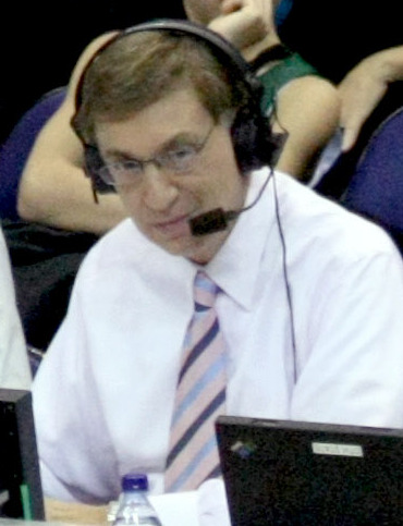 Marv Albert announces the Boston Celtics-Washington Wizards NBA game for TNT on Dec. 11, 2008.